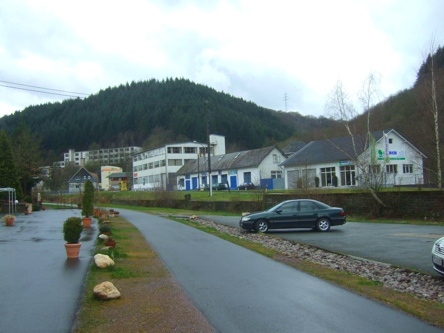 Gusterath-Tal with the former Romika shoe factory and the Ruwer-Hochwald-bikeway on the former Hochwaldbahn-railway